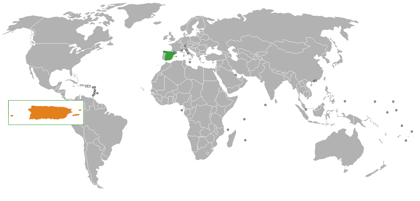 Location of Spain and Puerto Rico